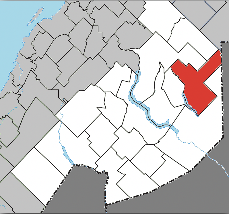 Location of Lejeune, Quebec within Témiscouata Regional County Municipality.